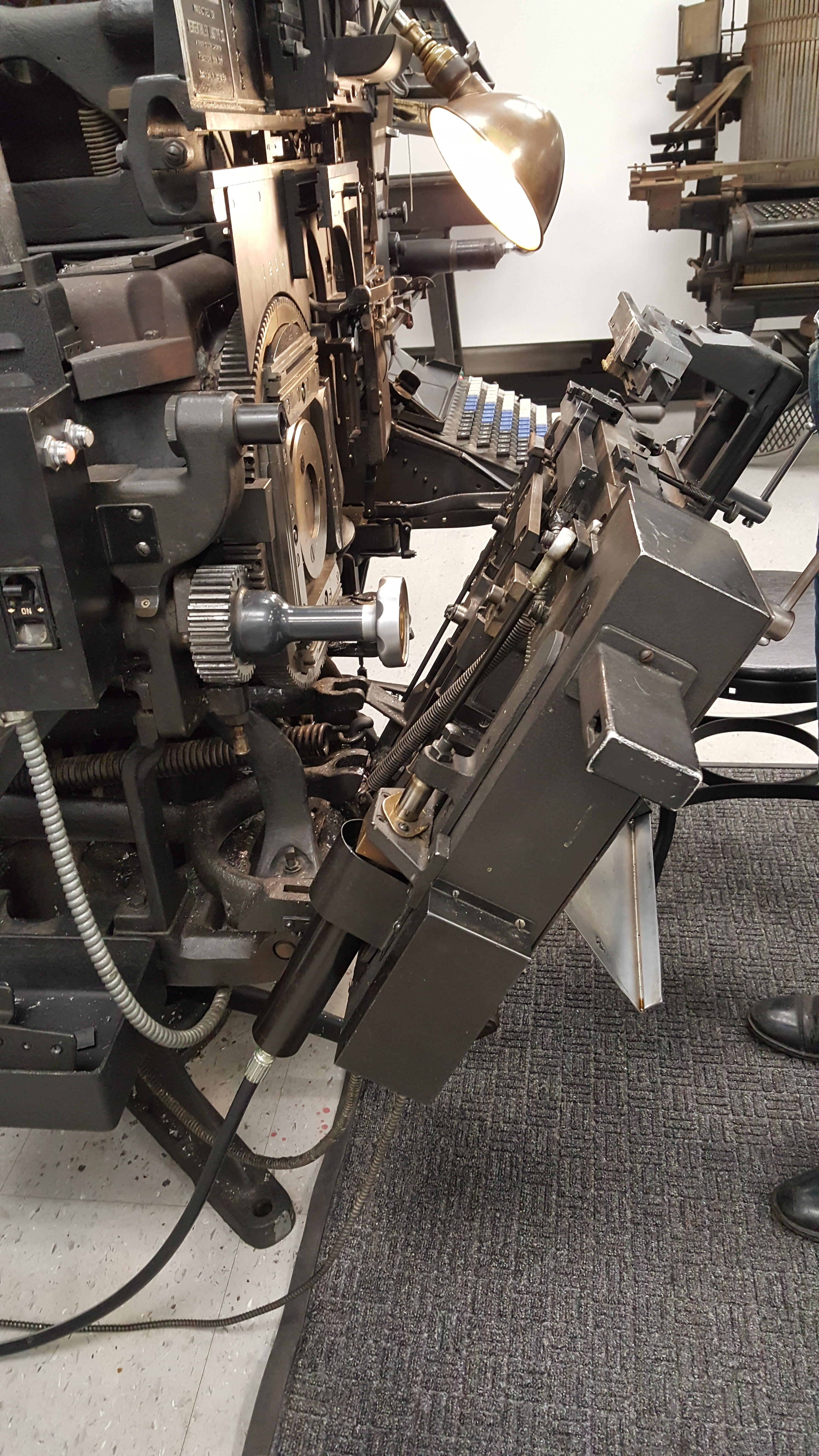 linotype model 8, first elevator assembly (open) and mold disk